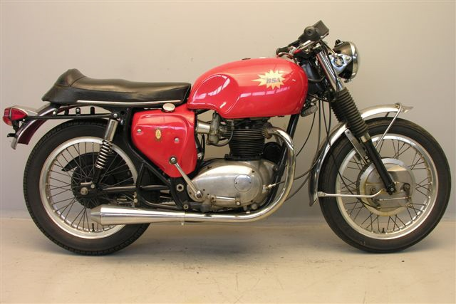 BSA Spitfire motorcycle